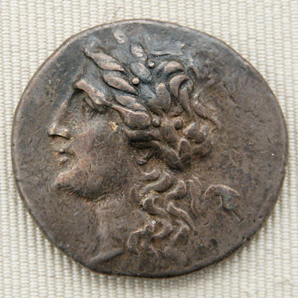 Silver tetradrachm of Alexandria Troas, ca. 107–95 BC; obverse: Apollo wearing a laurel wreath, facing left.